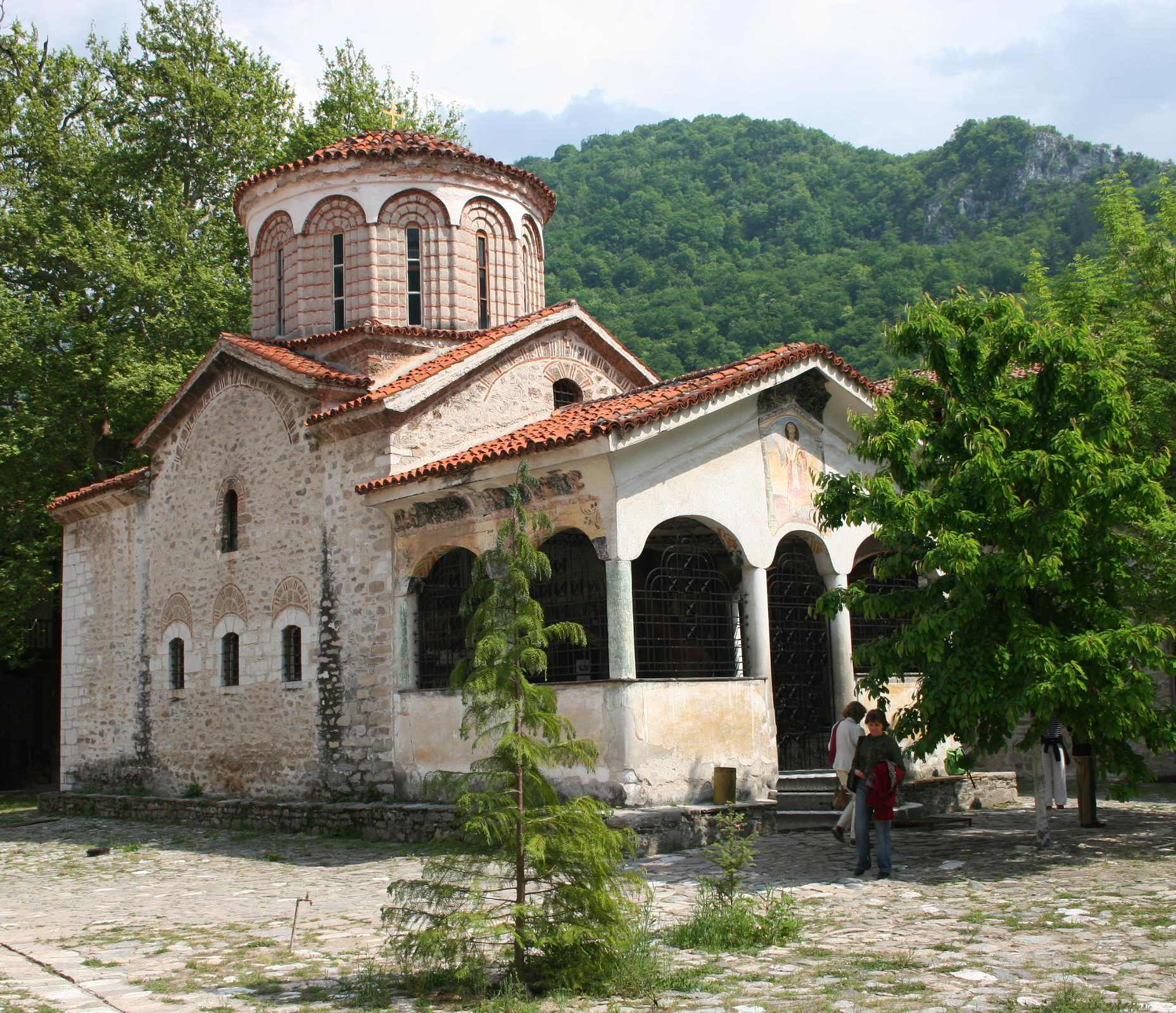 St. Nicola church at Bachkovo monastery, Bulgaria